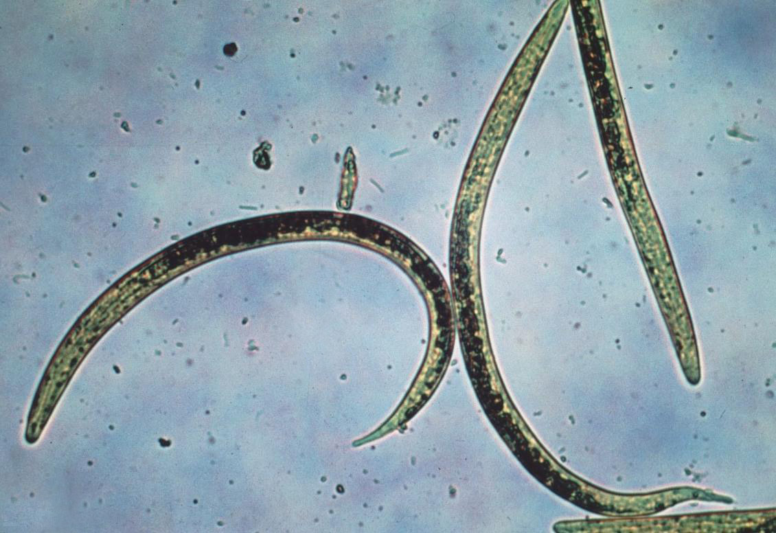 Dictyocaulus viviparus, larval stages of nematode parasite of cattle.